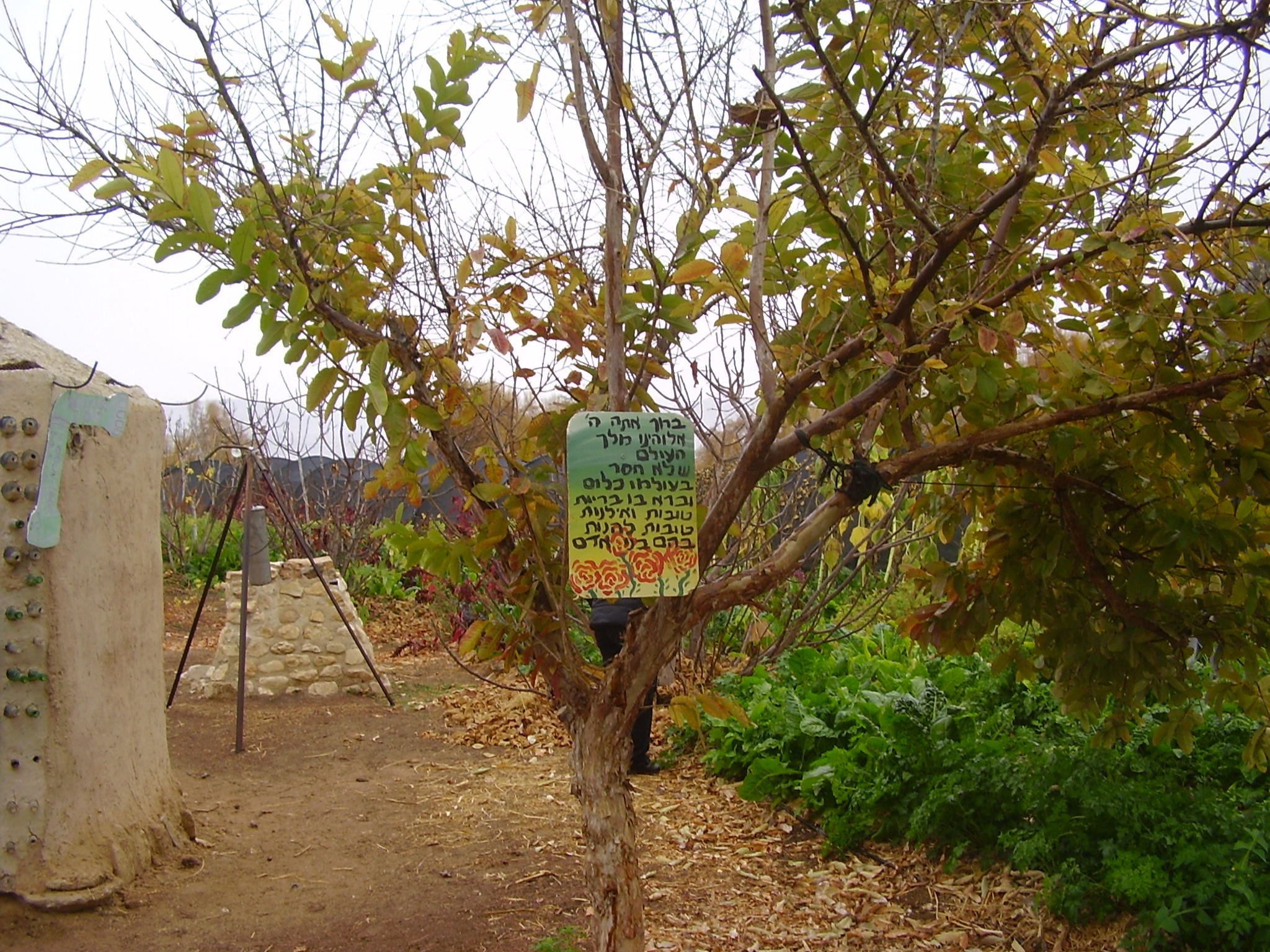 Herbs garden in Kibbutz Lotan